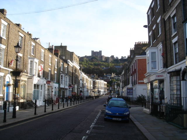 Dover Castle seen from Castle Street. Photographed on 30 September 2007.